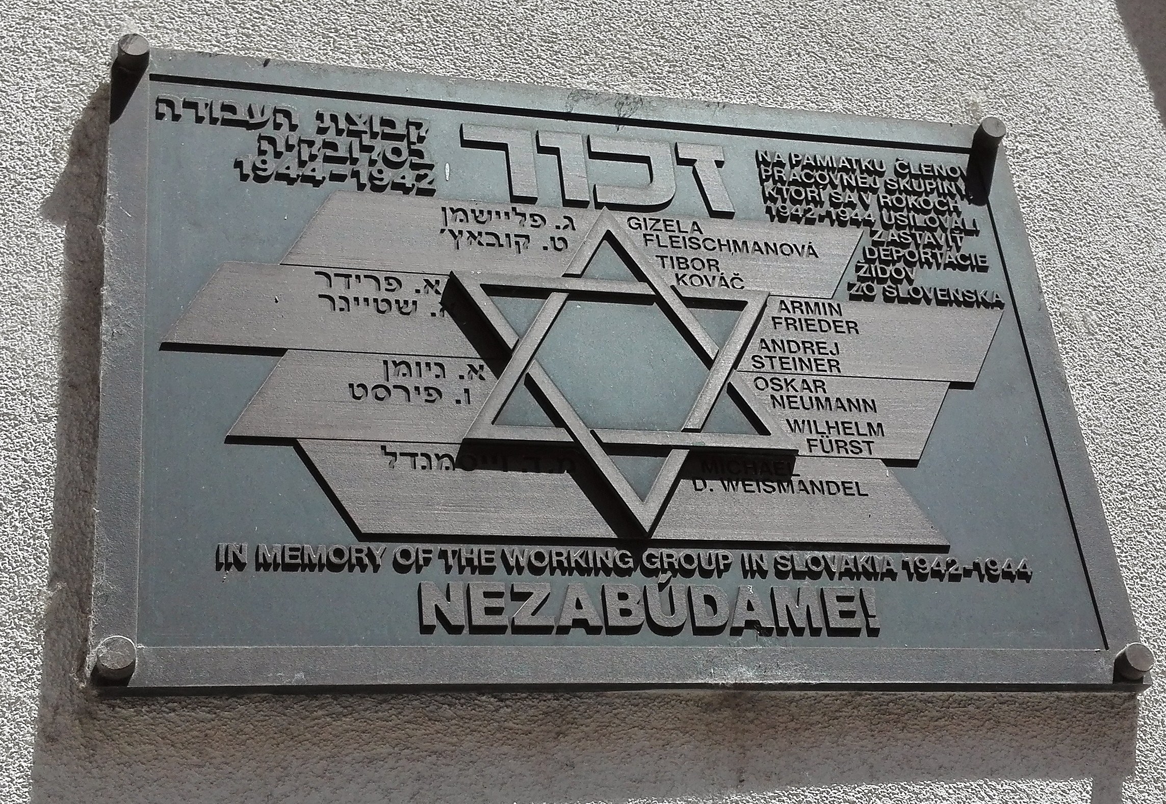 Plaque for The Working Group members. Kozia Street, Bratislava/Slovakia.